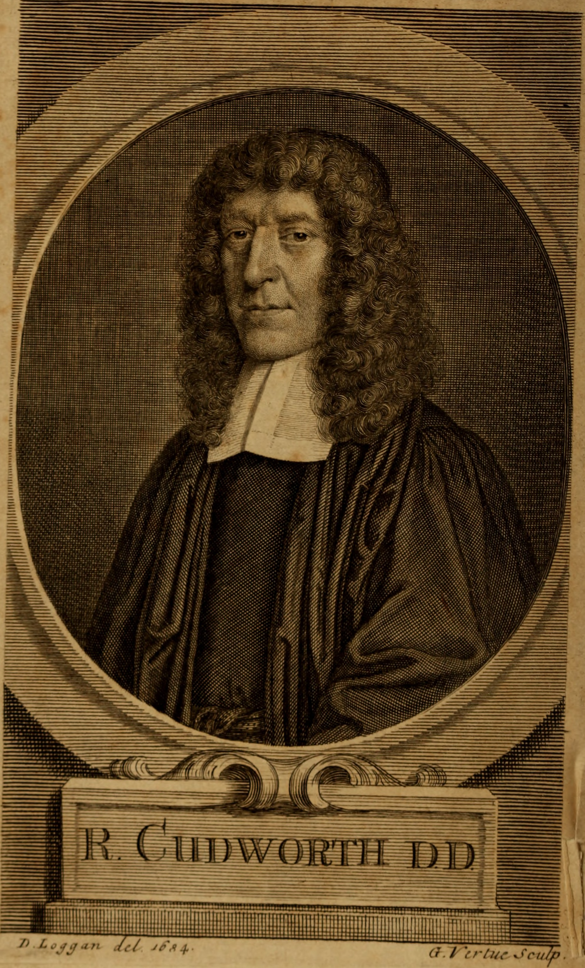 Ralph Cudworth by George Vertue, after David Loggan, line engraving, published 1731 Title: A treatise concerning eternal and immutable morality Year: 1731 (1730s) Authors: Cudworth, Ralph, 1617-1688 Chandler, Edward, 1668?-1750 Adams, John, 1735-1826, former owner. BRL Boston Public Library) John Adams Library BRL Subjects: Ethics Christian ethics Publisher: London : Printed for James and John Knapton ... Text Appearing Before Image: *treatiseconcerni00cudw Text Appearing After Image: 6 references: National Portrait Gallery: NPG D29617